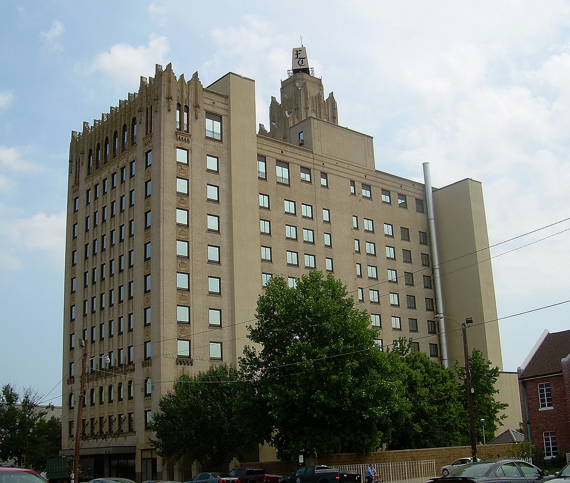 Francis Towers, Monroe, Louisiana